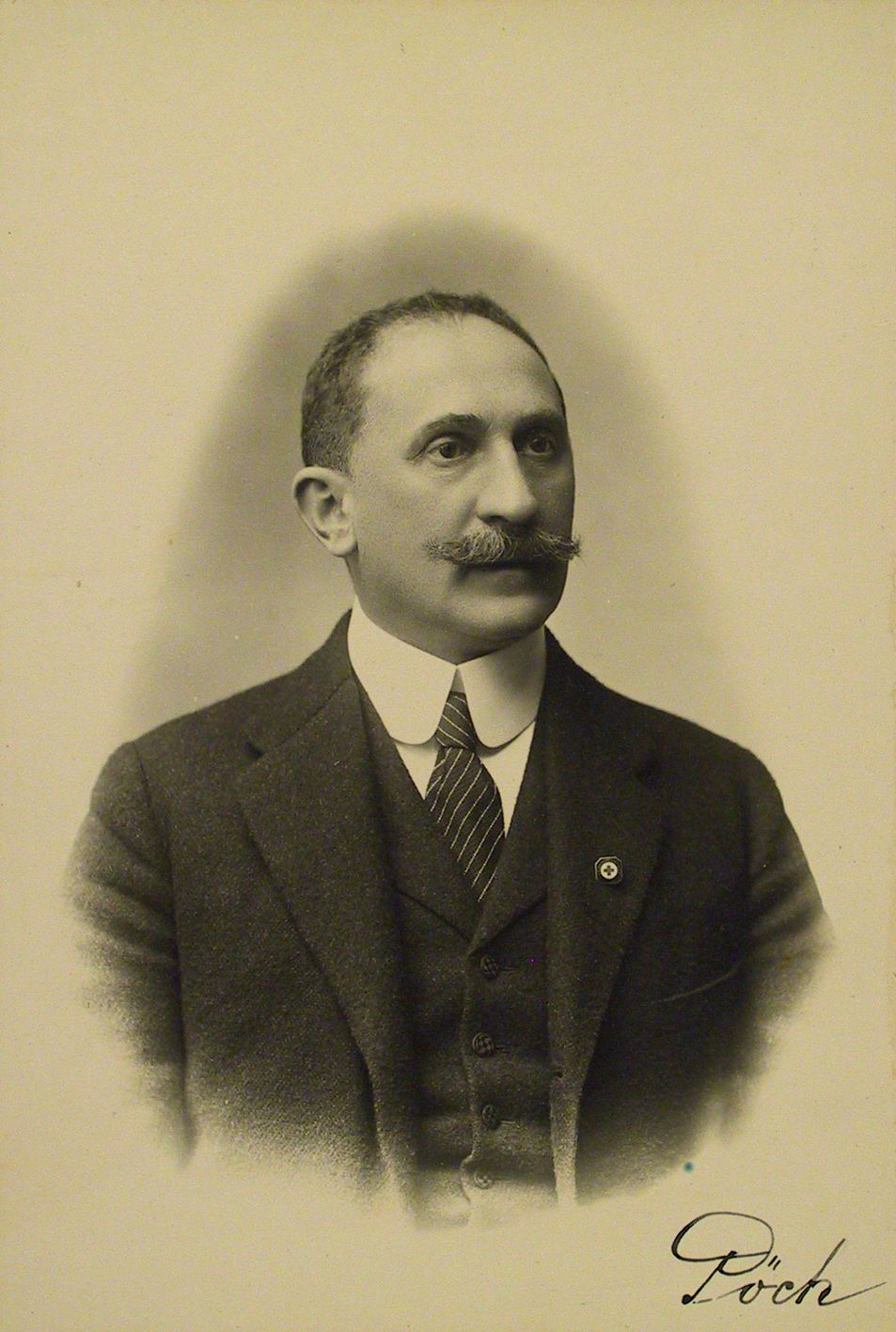 Picture of Rudolf Pöch from University of Vienna archive.